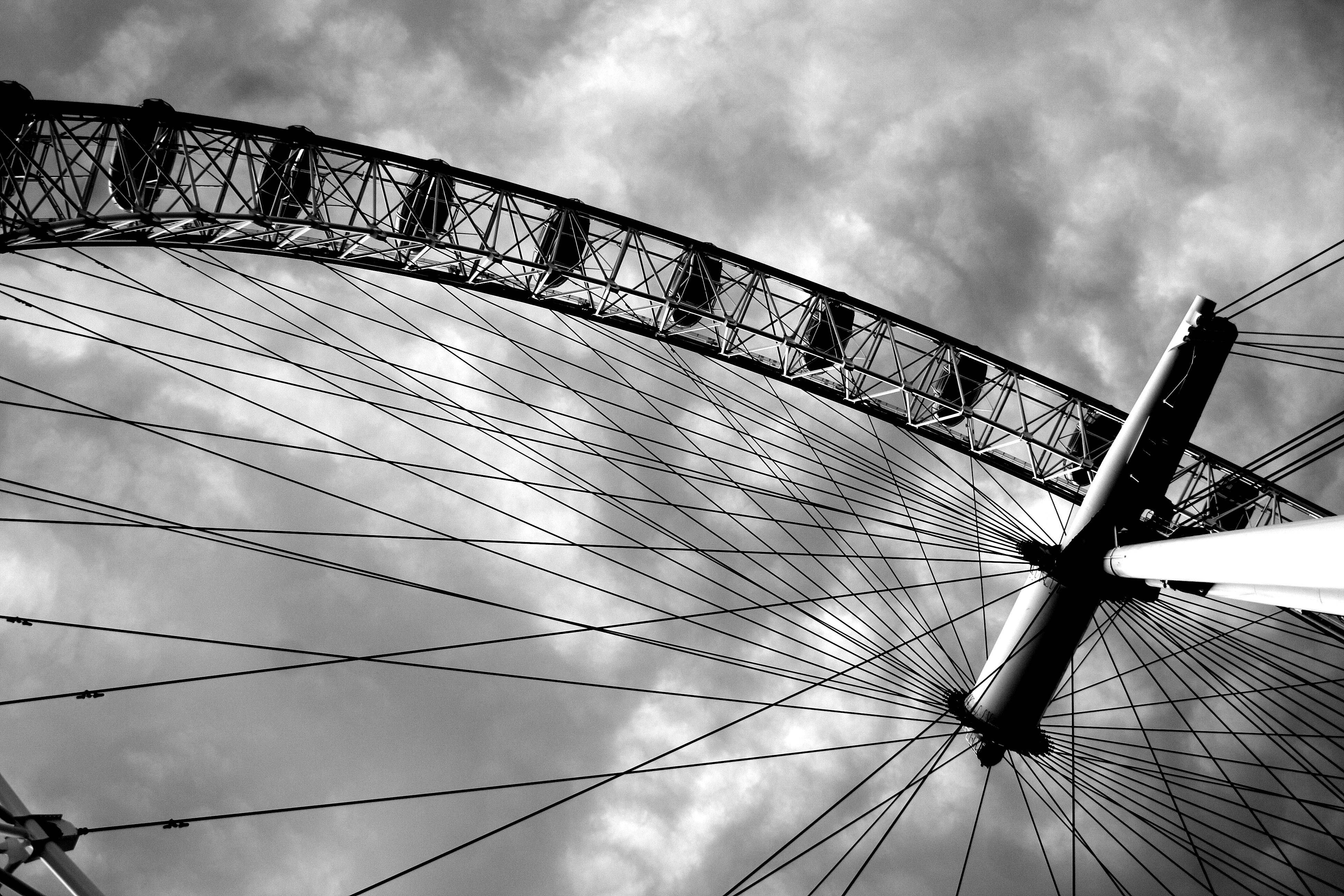 Aashish Rao Photography